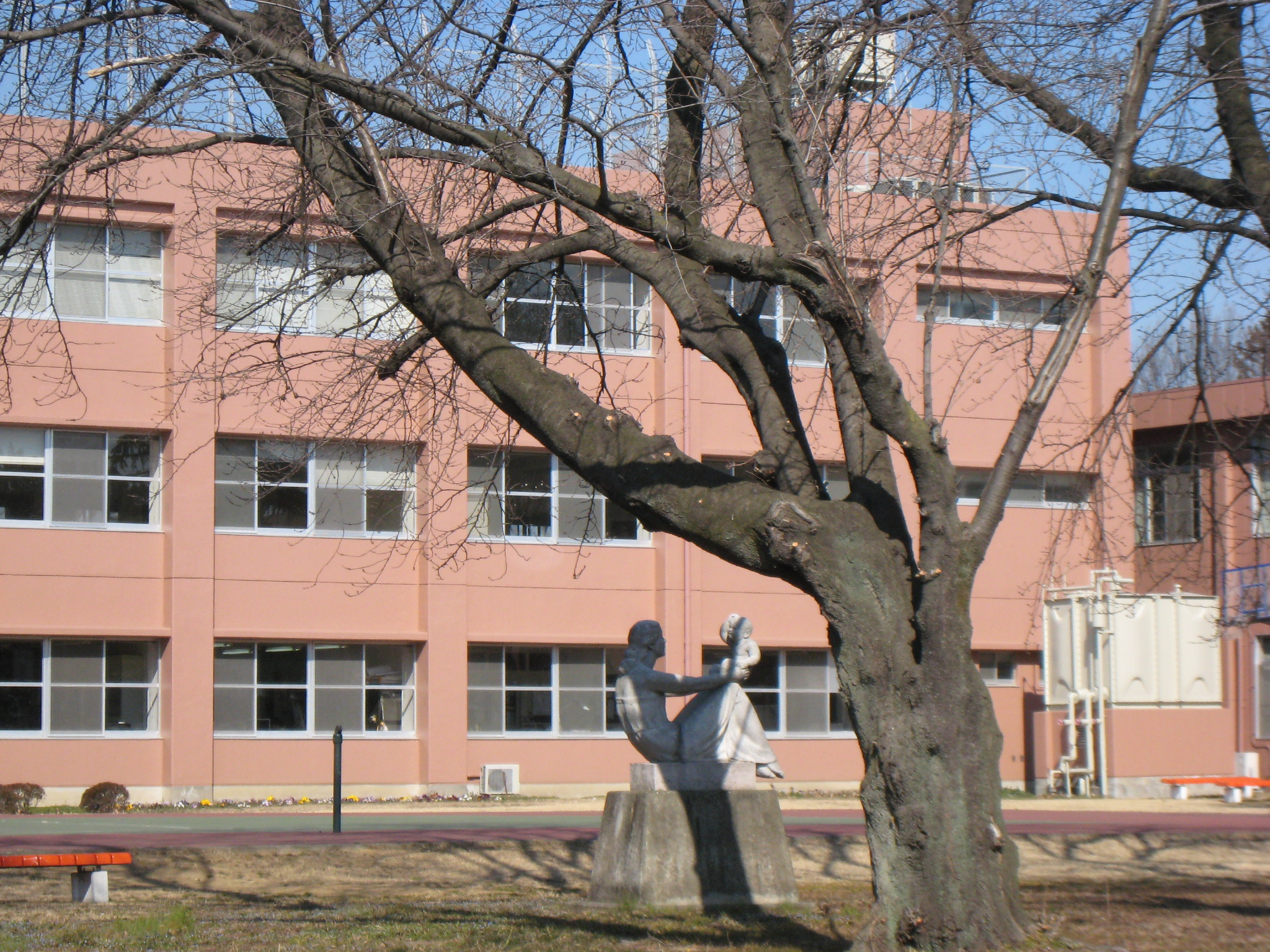 Oizumi College of Social Workers in Oizumi Town, Gunma Prefecture, Japan